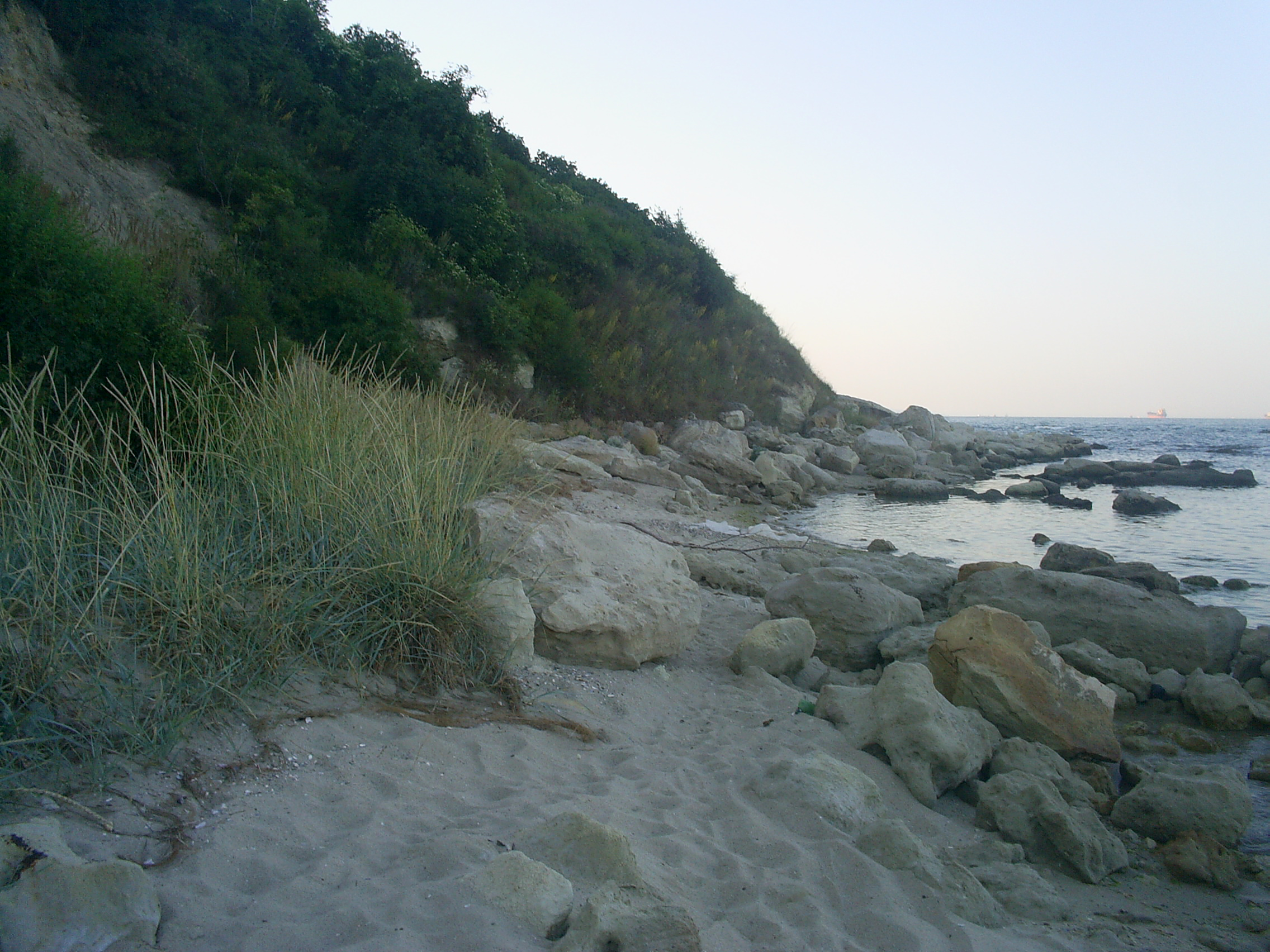 Pasha dere, Bulgaria